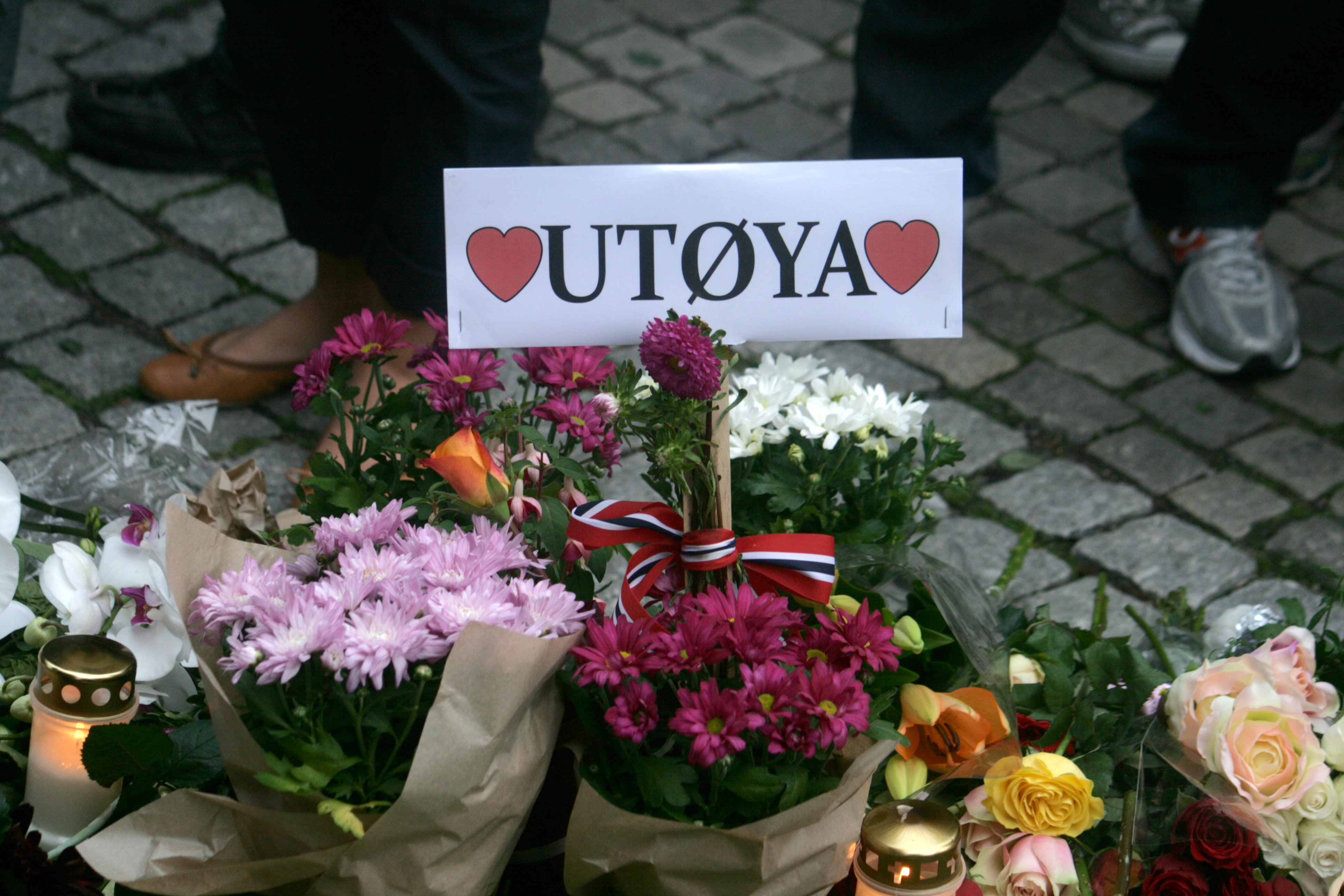 One of thousands of greetings outside Oslo Cathedral.